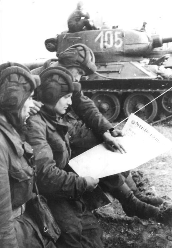 15.08.1961, Erection of the Berlin Wall. Members of an east german tank unit deployed near Berlin. Note the T-34/85 tank and the staged gathering of the soldiers around the GDR´s official party newspaper "Neues Deutschland". Original caption reads:"Members of an NVA tank unit, deployed for securing the state border in Berlin."